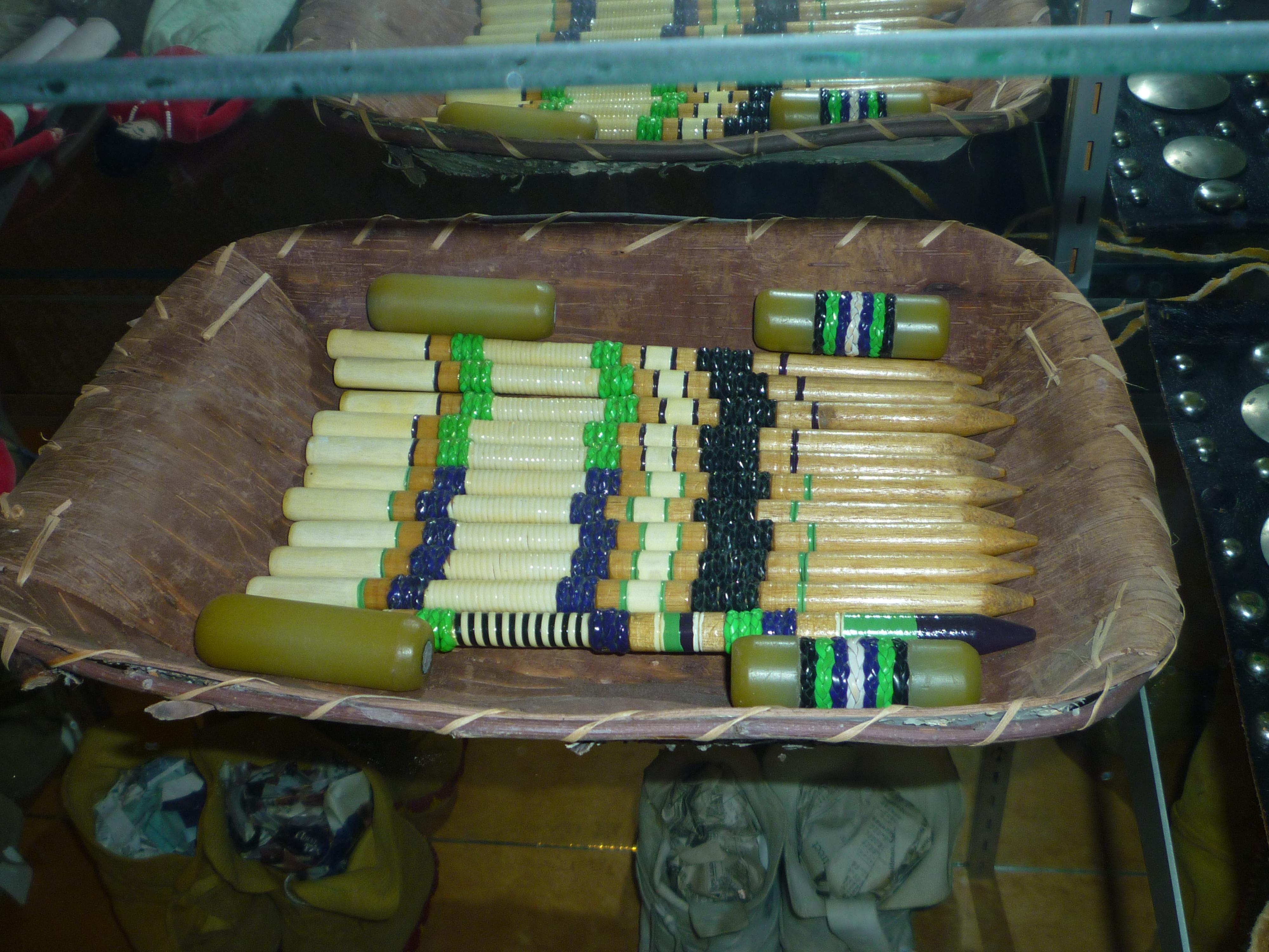 Stick game set, Holt Museum, Traveler's Rest State Park Visitors' Center, Lolo, Montana